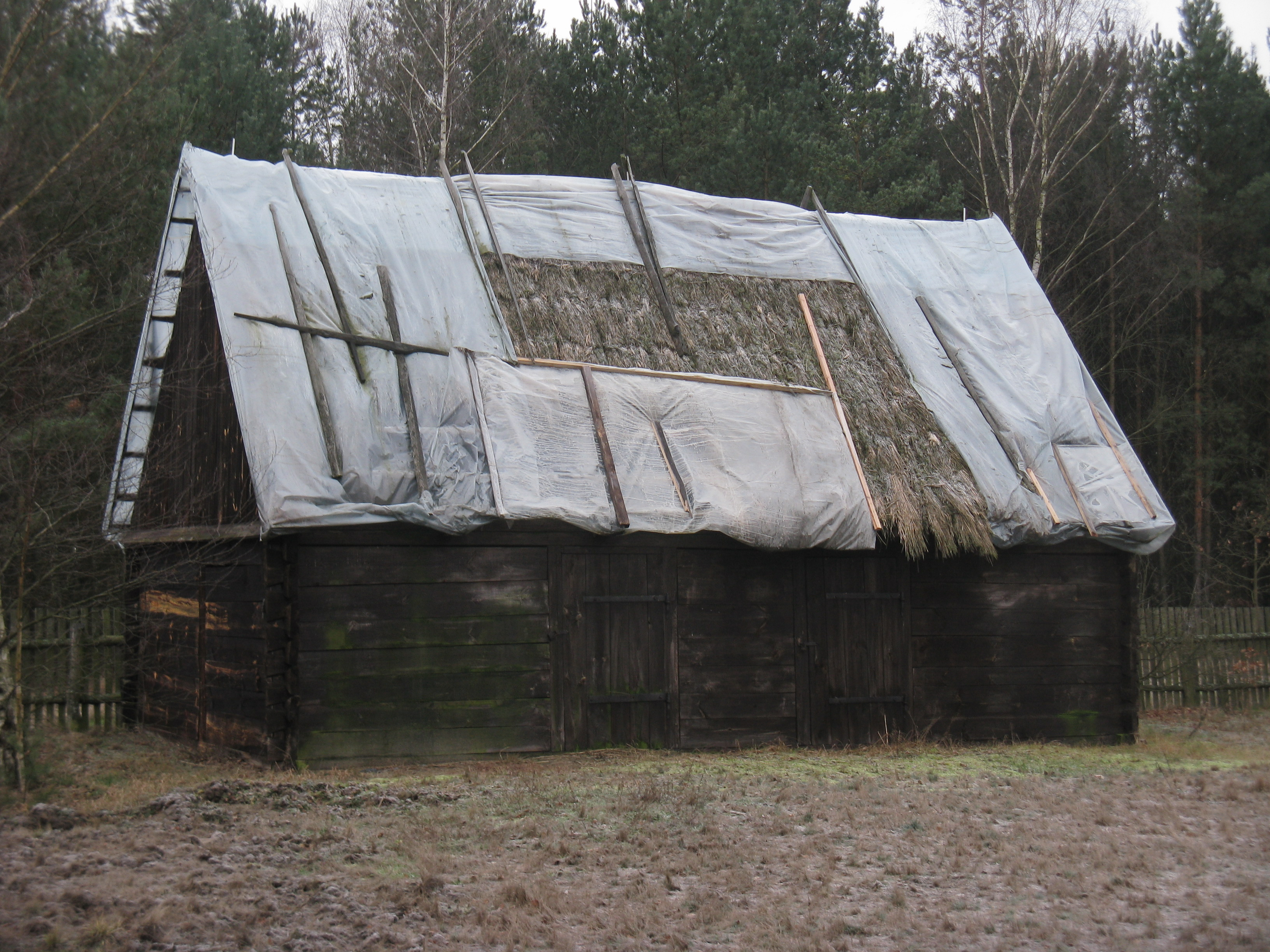 open air museum in Granica